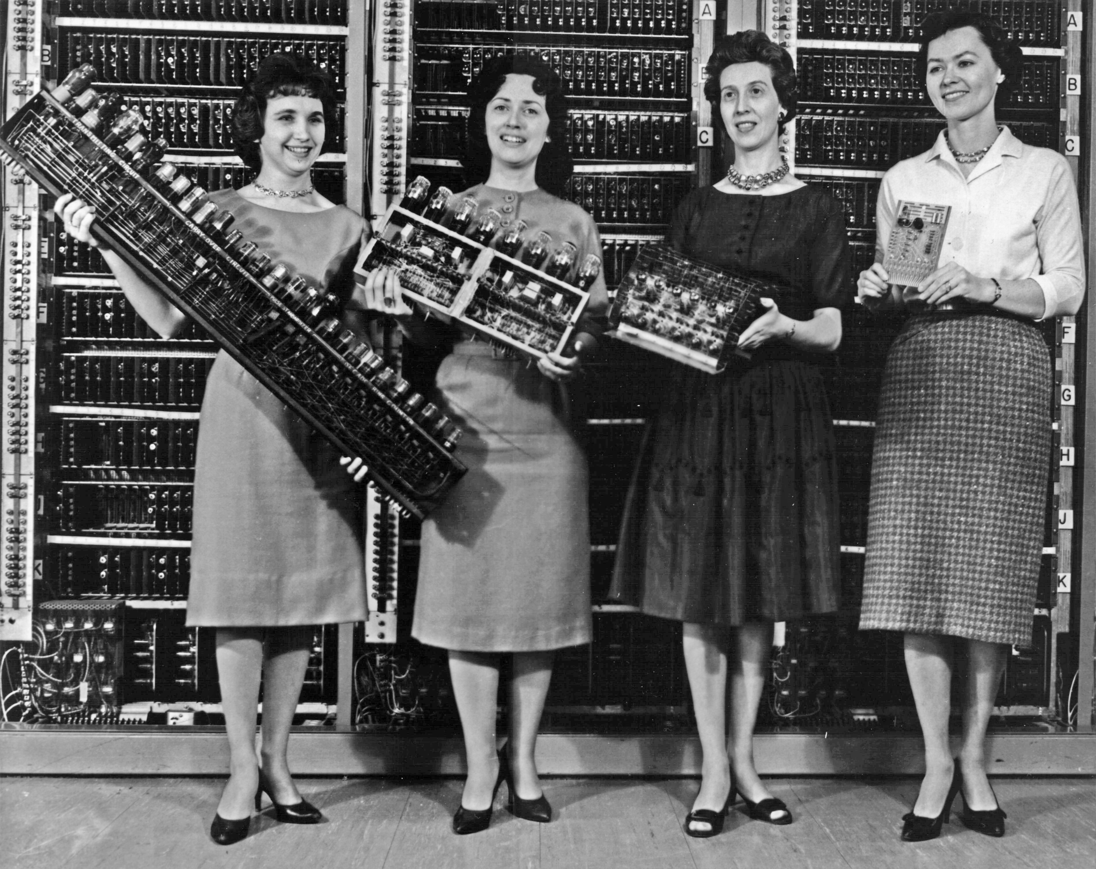 "U.S. Army Photo", number 163-12-62. Left: Patsy Simmers (mathematician/programmer), holding ENIAC board. Next: Mrs. Gail Taylor, holding EDVAC board. Next: Mrs. Milly Beck, holding ORDVAC board. Right: Mrs. Norma Stec (mathematician/programmer), holding BRLESC-I board.